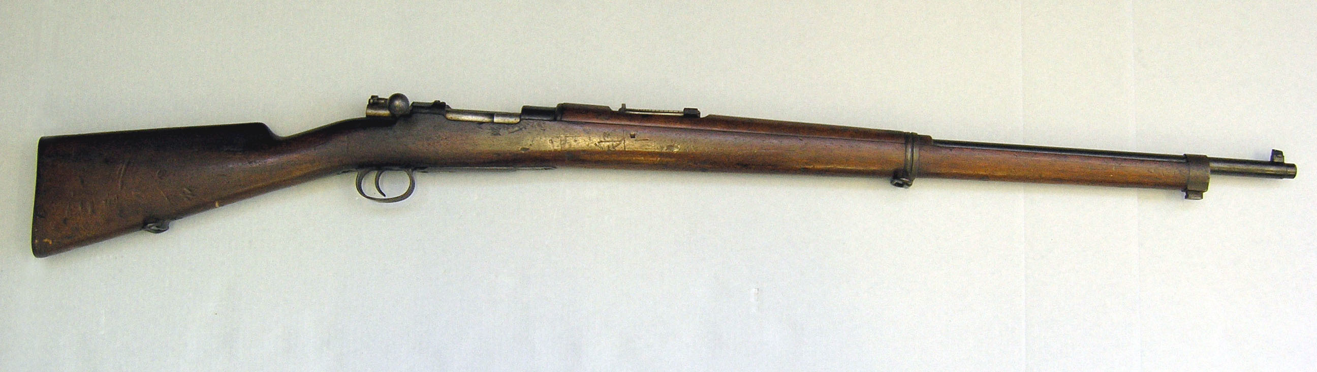 Mauser Model 1895 bolt-action rifle, Anglo Boer War "Used by Boers in SA War" bolt action; 7x57mm calibre; burn marks missing parts- cleaning rod markings- carved on left hand side of forestock- F.A.J. PRETORIUS serial number on front left of receiver- 5636 on left of receiver- DEUTSCHE WAFFEN-UND MUNITIONSFABRIKEN. - BERLIN on left hand side forestock below receiver- 5636 stamped on forward end of trigger guard and magazine base- 5636 on magazine floor plate and repeated three times on underside of rear sight- 36 manufacturer's logo on centre right butt on bolt- 5636 Maker- Deutsche Waffen und Munitionsfabriken, Berlin